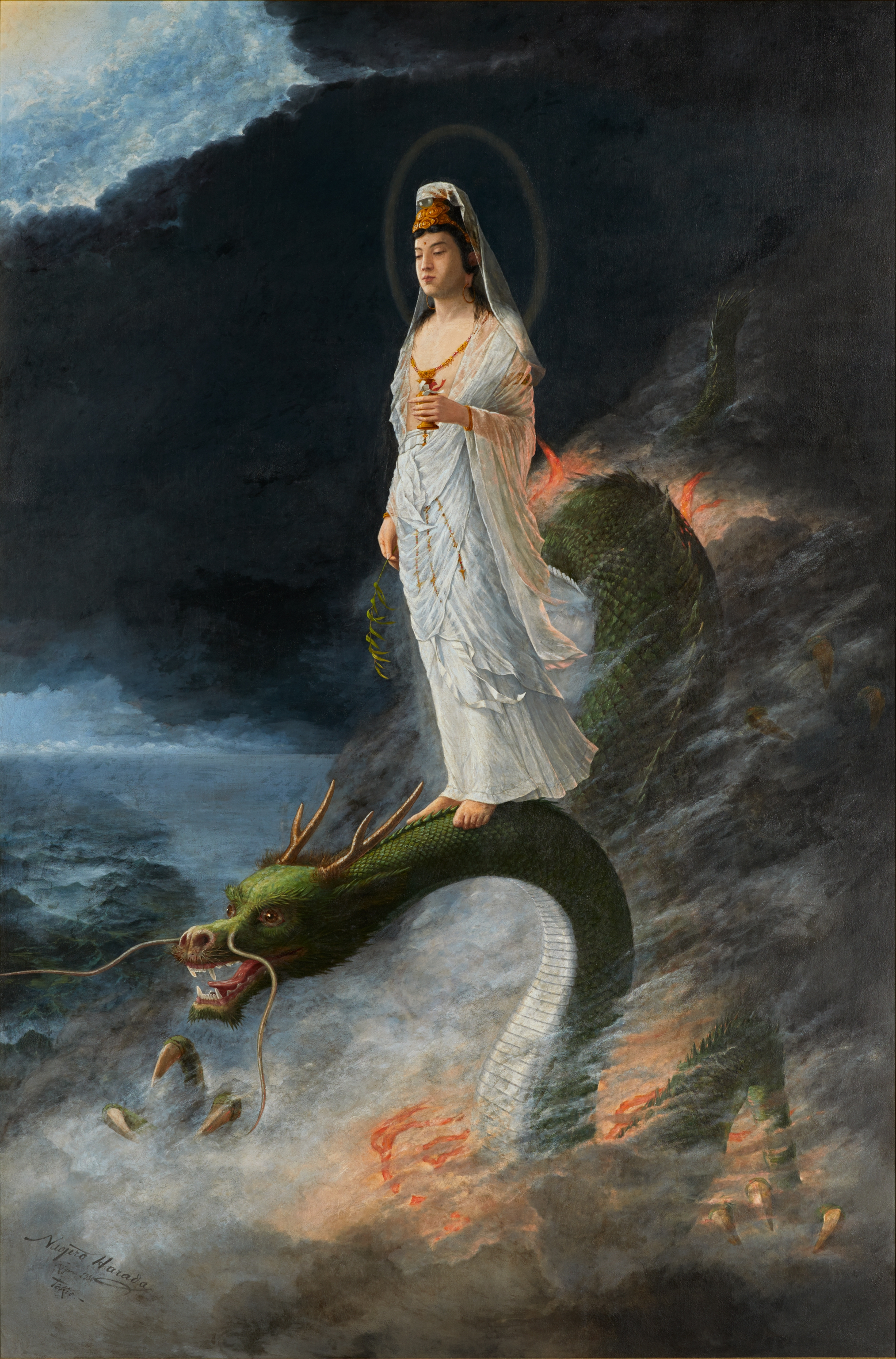 Kannon Riding a Dragon by Harada Naojiro, National Museum of Modern Art, Tokyo